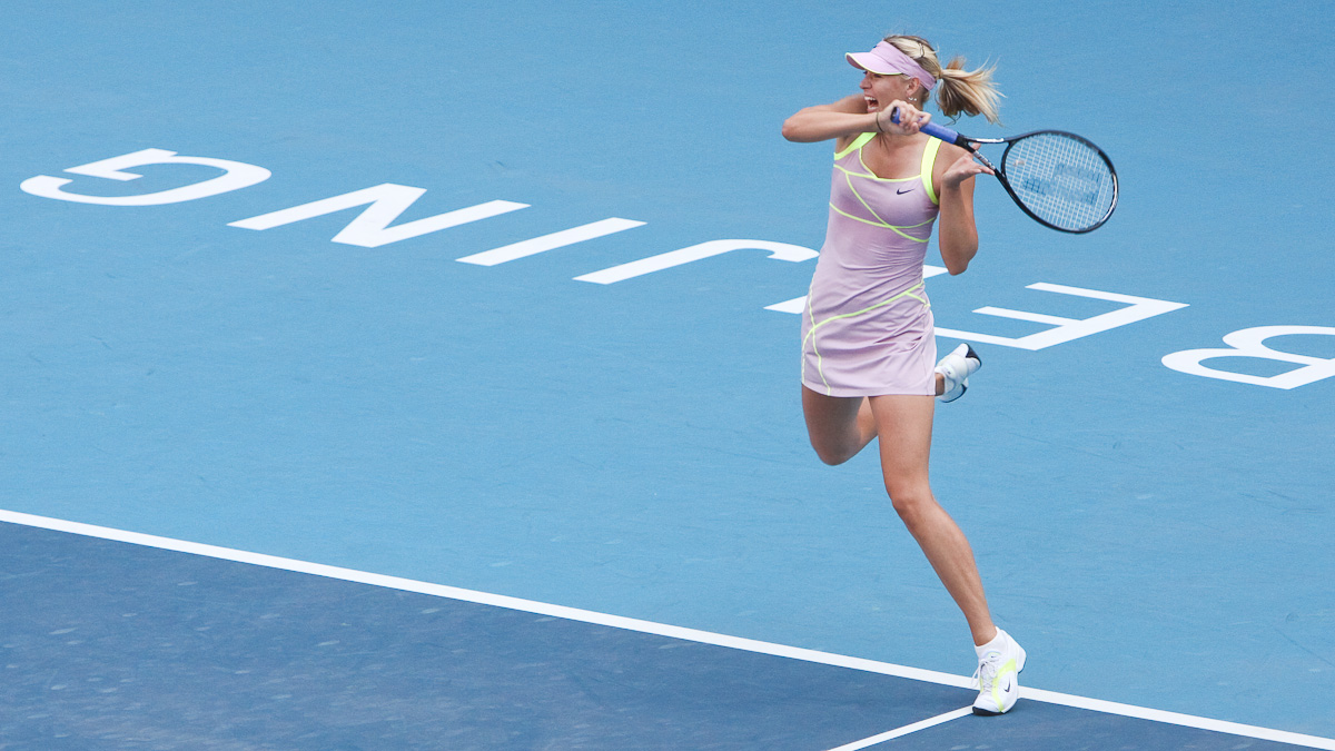 Maria Sharapova at the 2009 China Open